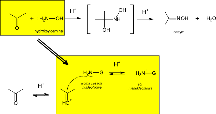 oxime synthesis